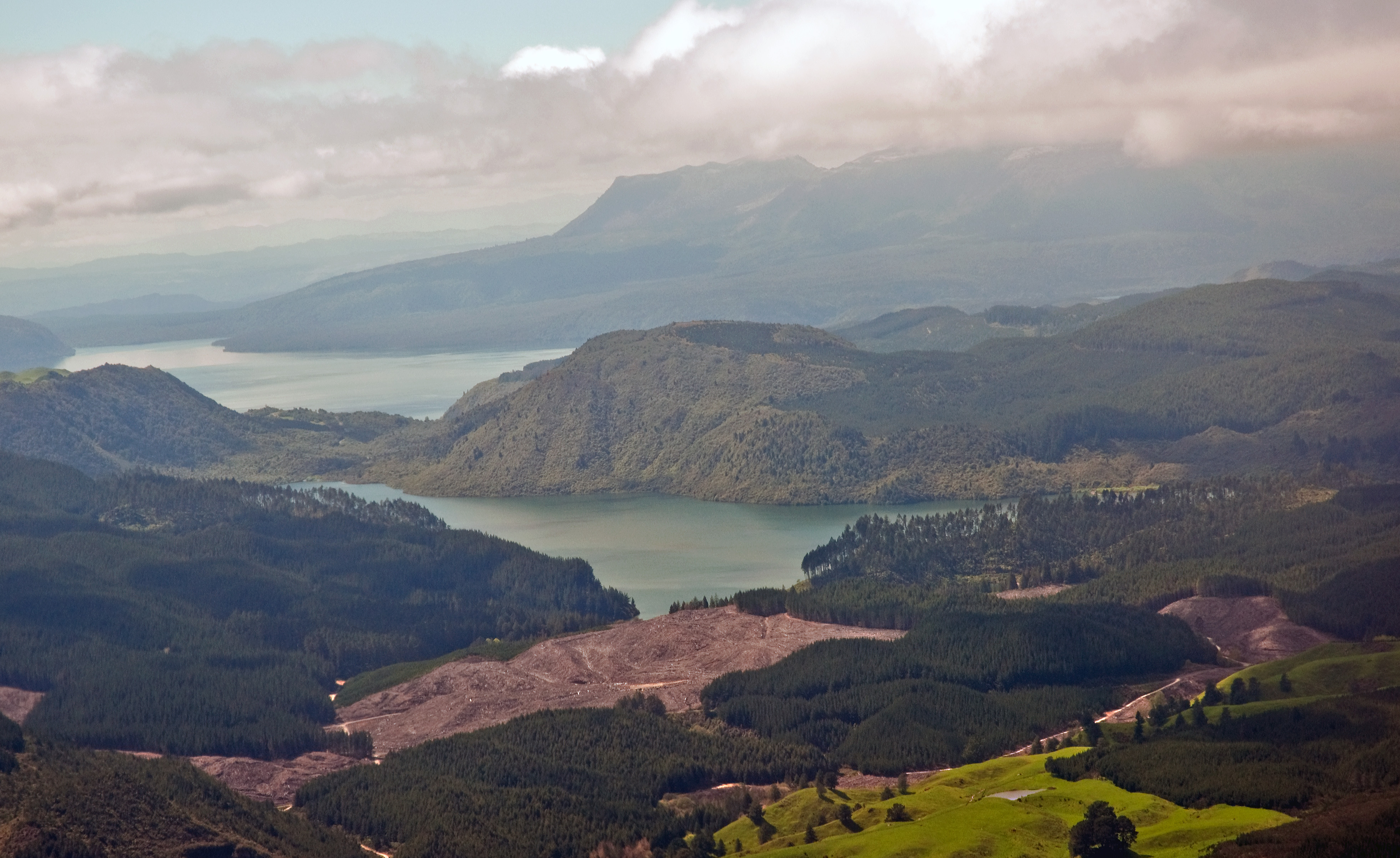 Approaching Rotorua from Wellington in an Air Nelson Q300.